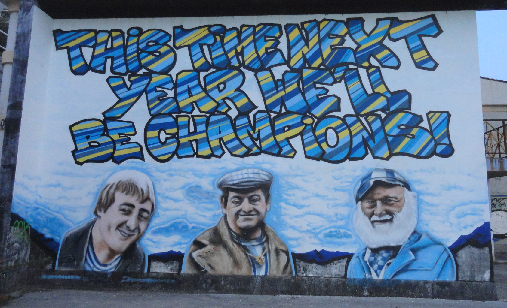 Only Fools And Horses Graffiti in Rijeka by the fans of HNK Rijeka football club ("This time next year we'll be champions!")